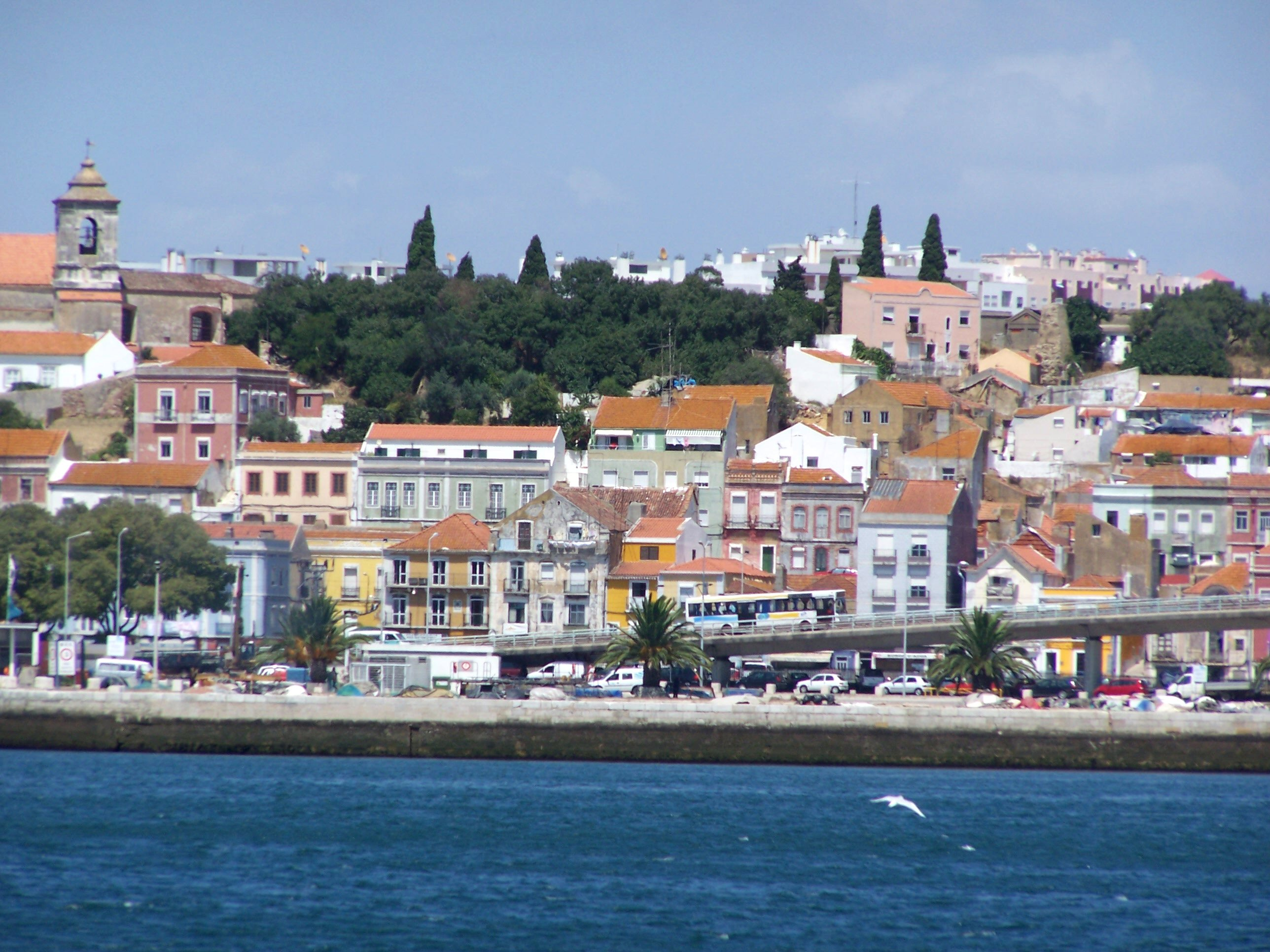 Setúbal is a city and a municipality in Portugal with a total area of 172.0 km² and a total population of 118,696 inhabitants in the municipality. The city proper has 89,303[1] inhabitants. The municipality is composed of 8 parishes, and is located in the district of Setúbal.